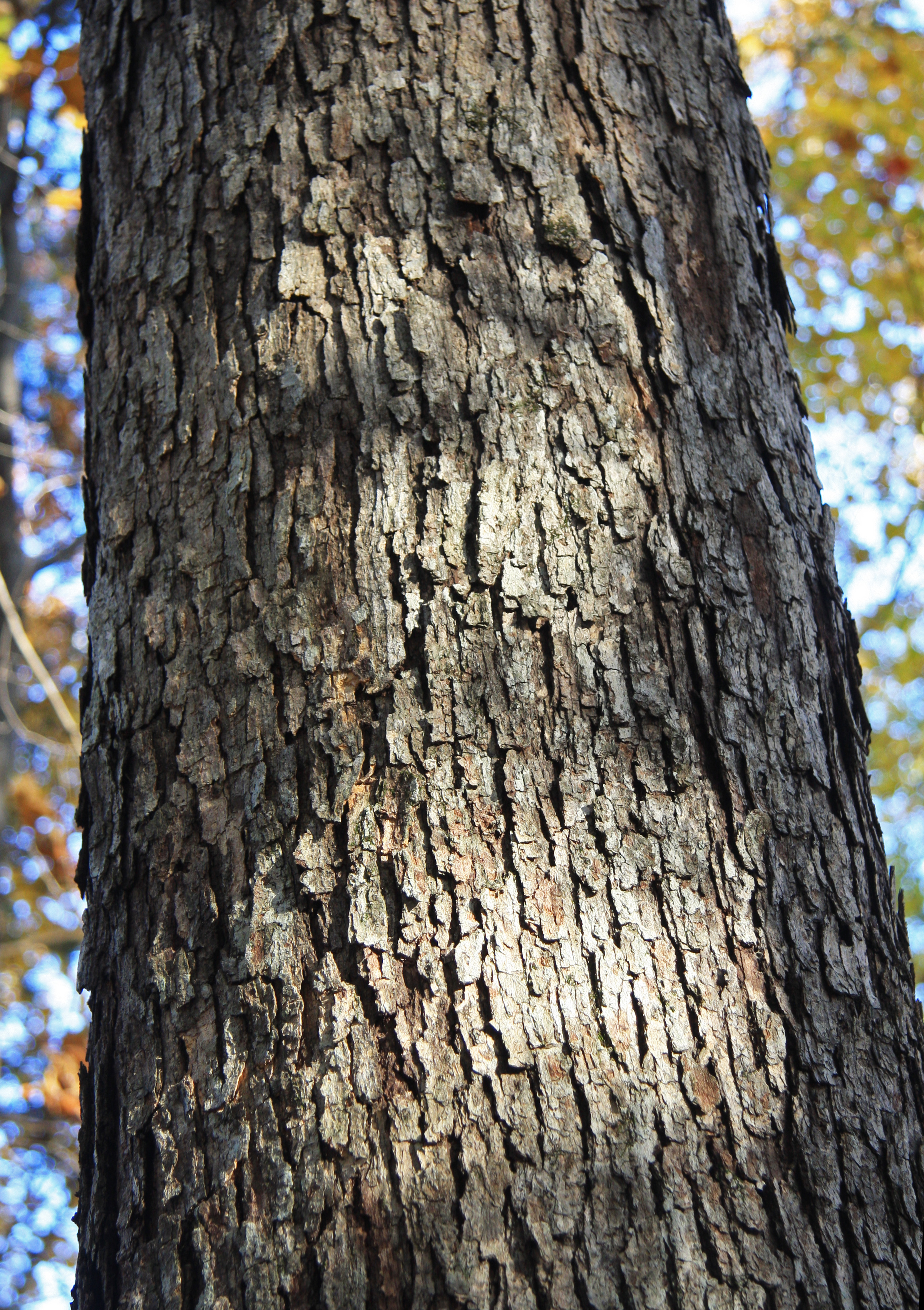 White oak (Quercus alba) bark on trunk, showing pale gray color, squarish fissures, and slightly shaggy small plates partway up the tree. Duke Forest, Durham North Carolina.